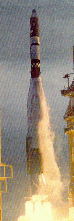 Moment of launch of rocket Atlas LV-3A Agena D with satellite KH-7 13.